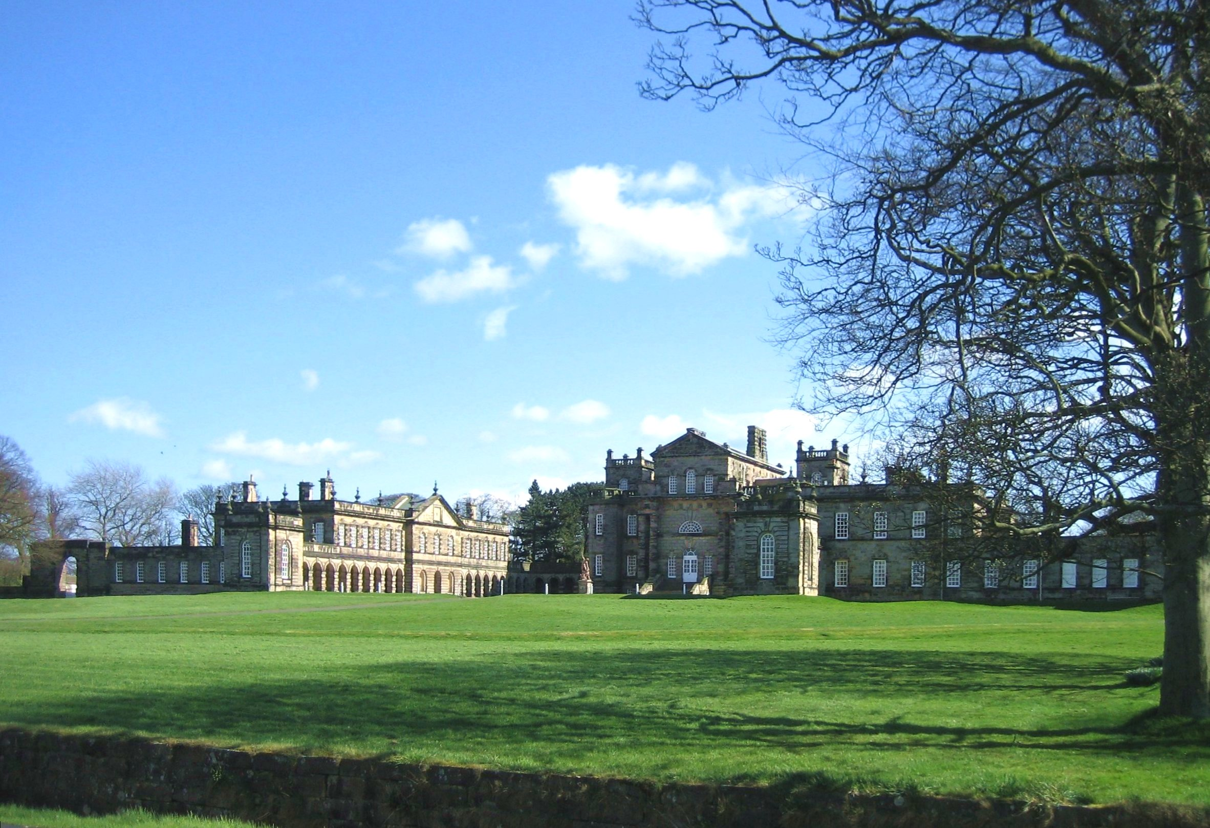 Seaton Delaval Hall - all from north-west, with tree